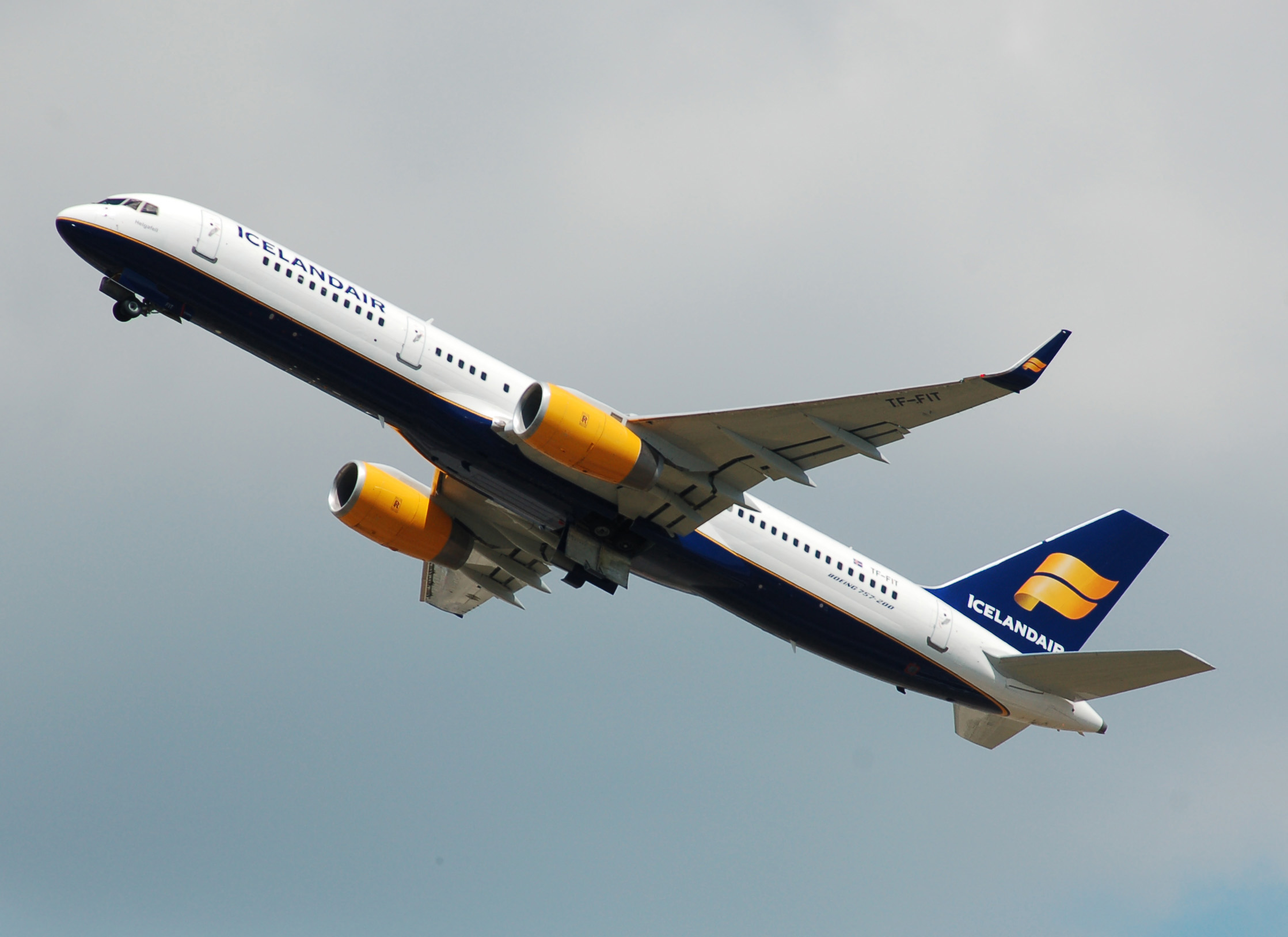 Icelandair Boeing 757-200 (TK-FIT) departs London Heathrow Airport, England, 2nd July 2014. The undercarriage doors have not yet shut.